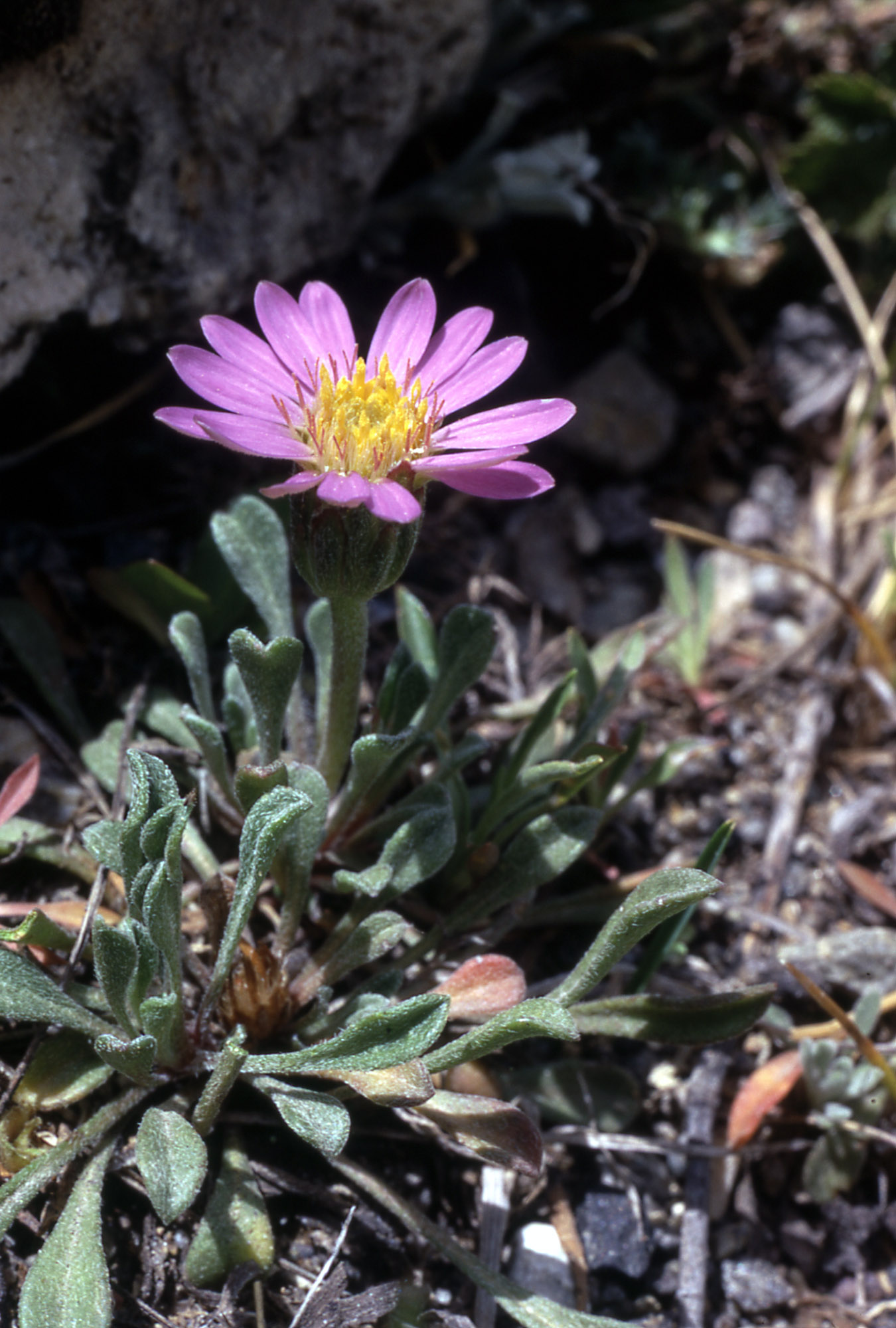 Townsendia alpigena